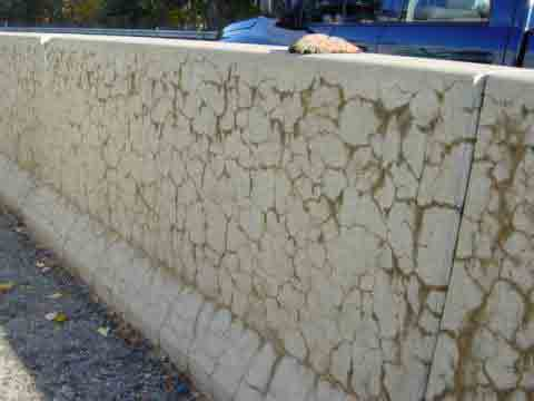 Typical cracks pattern related to the alkali-silica-reaction in a concrete barrier step along the state highway 2 near Leominster, MA (USA). From: Figure 1. Extensive map cracking in several concrete barriers along State Highway 2 near Leominster, MA. In TechBrief: Selecting Candidate Structures for Lithium Treatment: What To Provide the Petrographer Along With Concrete Specimens Publication No. FHWA-HRT-06-069 February 2006